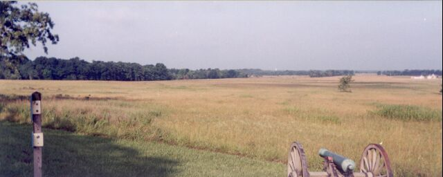 View south across farm fields towards Lee Town, Arkansas